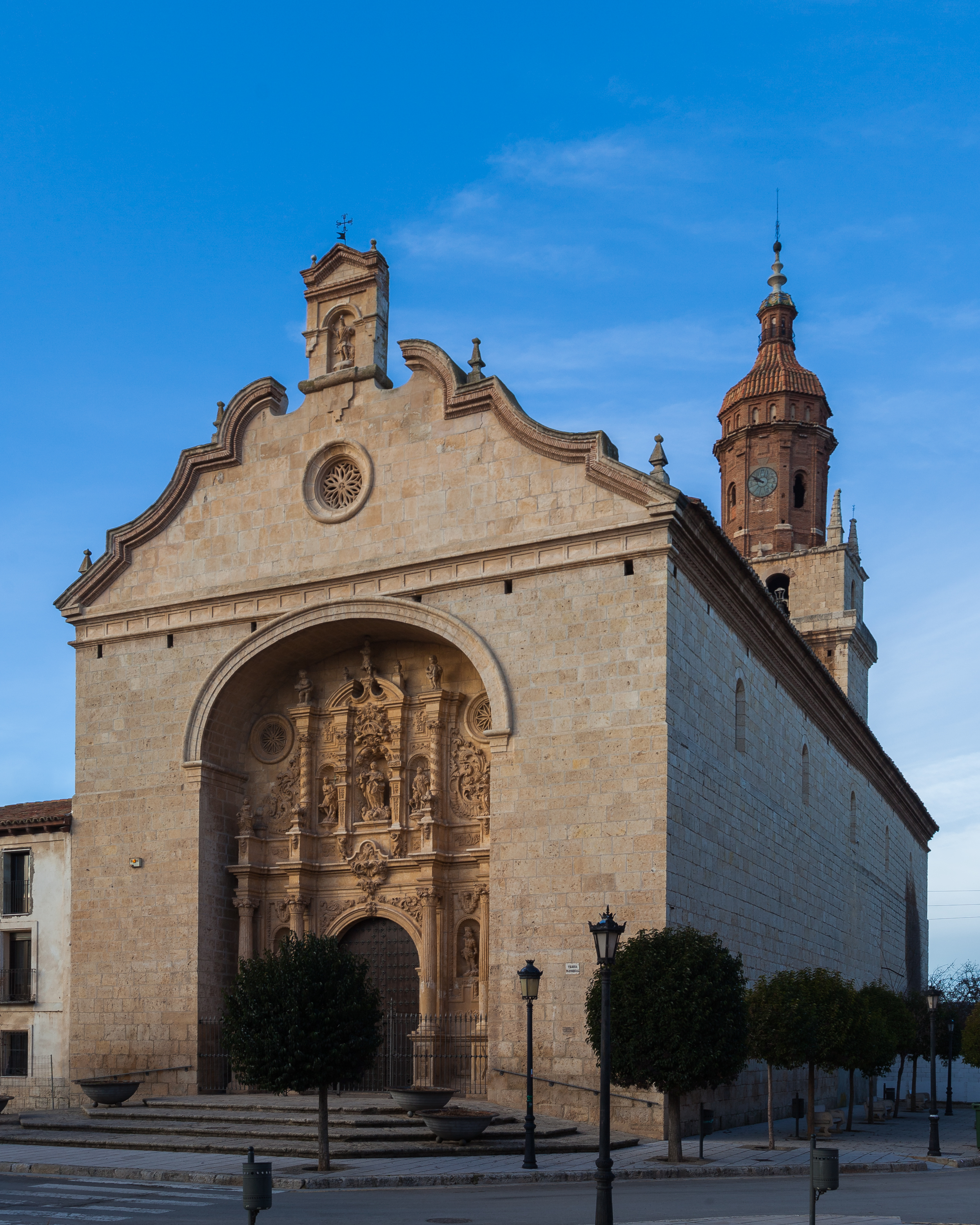 St Mary church, Calamocha, Teruel, Spain